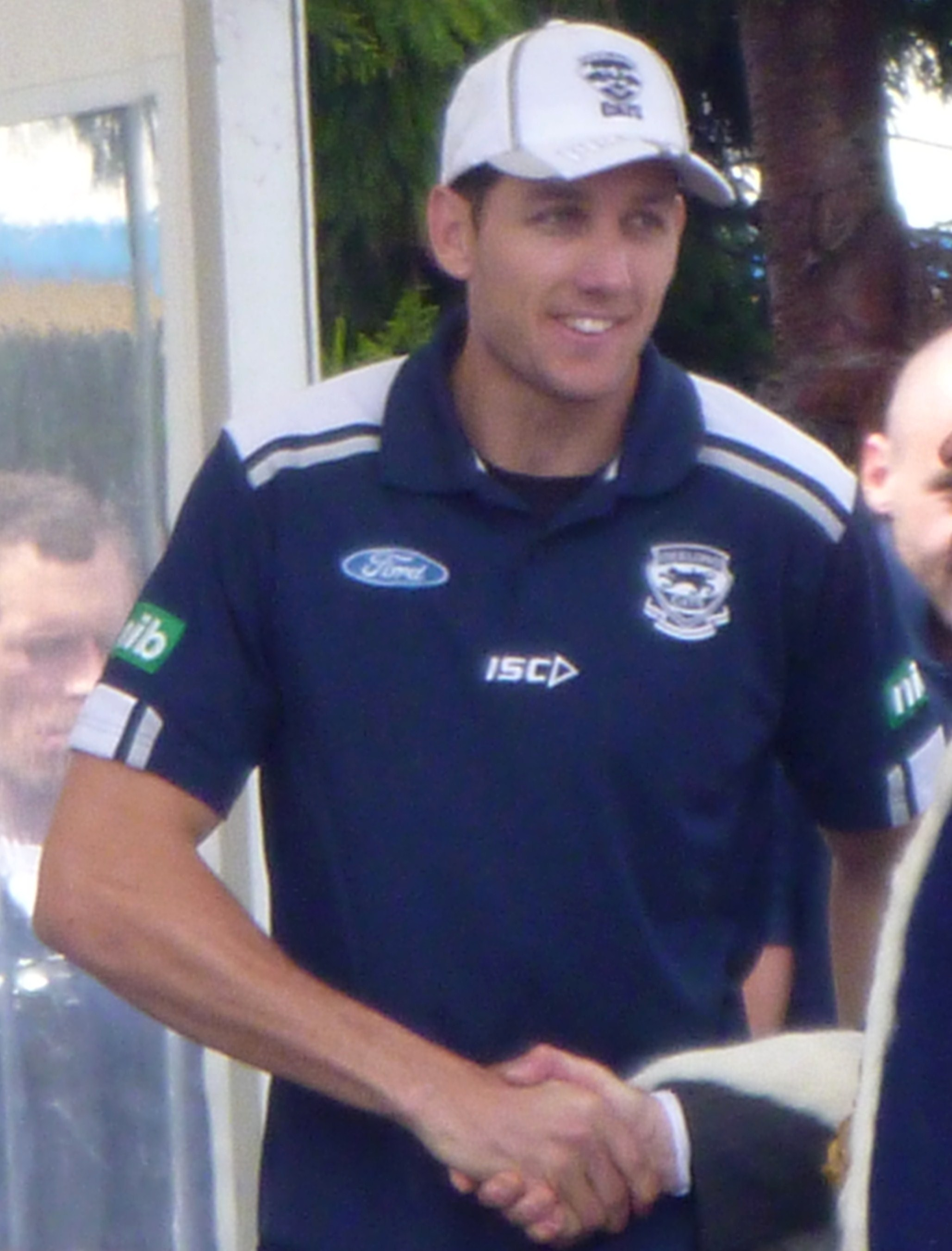 Harry Taylor at the Geelong Football Club's 2011 AFL Premiership victory parade in Geelong, Victoria, Australia.